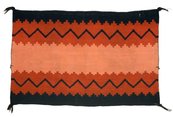 Woman's fancy manta Twill tapestry weave, weft-faced, diagonal and diamond patterns. 1.2 x 0.78 m; Tassels 0.090 m 30.709 x 47.244 in.; Tassels 3.543 in. Catalog No. E-2859